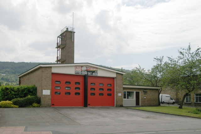 Otley fire station. Otley fire station, Bondgate, Otley, West Yorkshire.